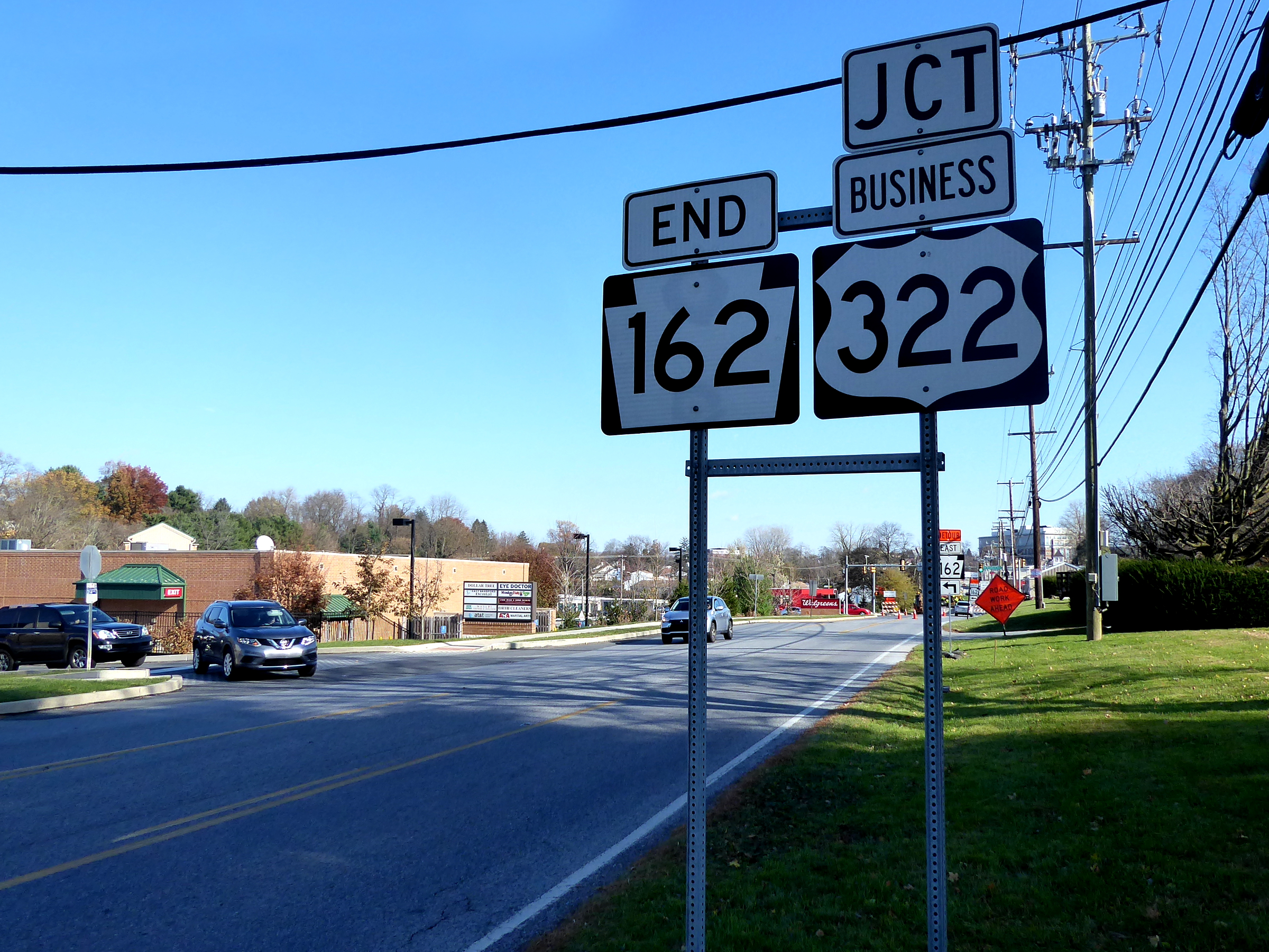 Pennsylvania Route 162 eastern terminus at U.S. Route 322 Business in West Chester, Pennsylvania.